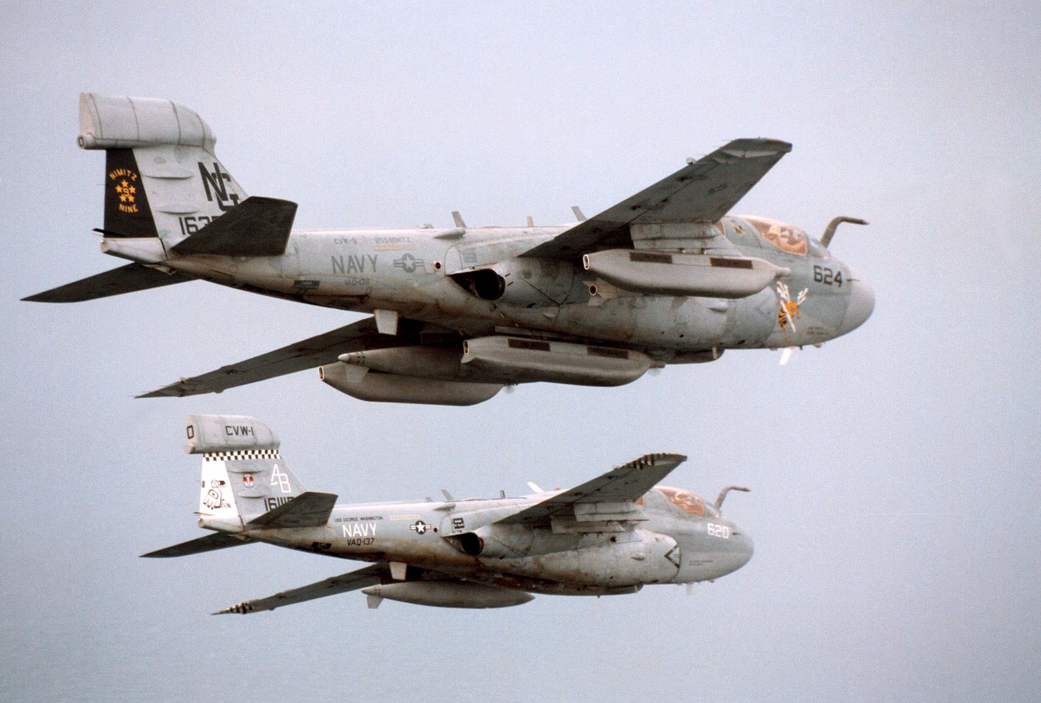 EA-6B Prowlers attached to Electronic Attack Squadron 137 (VAQ-137), Electronic Attack Squadron One Three Eight (VAQ-138) and U.S.S. George Washington (CVN 73) patrol the Persian Gulf. VAQ-137, VAQ-138 and U.S.S. George Washington were deployed to the Persian Gulf in support of Operation Southern Watch.